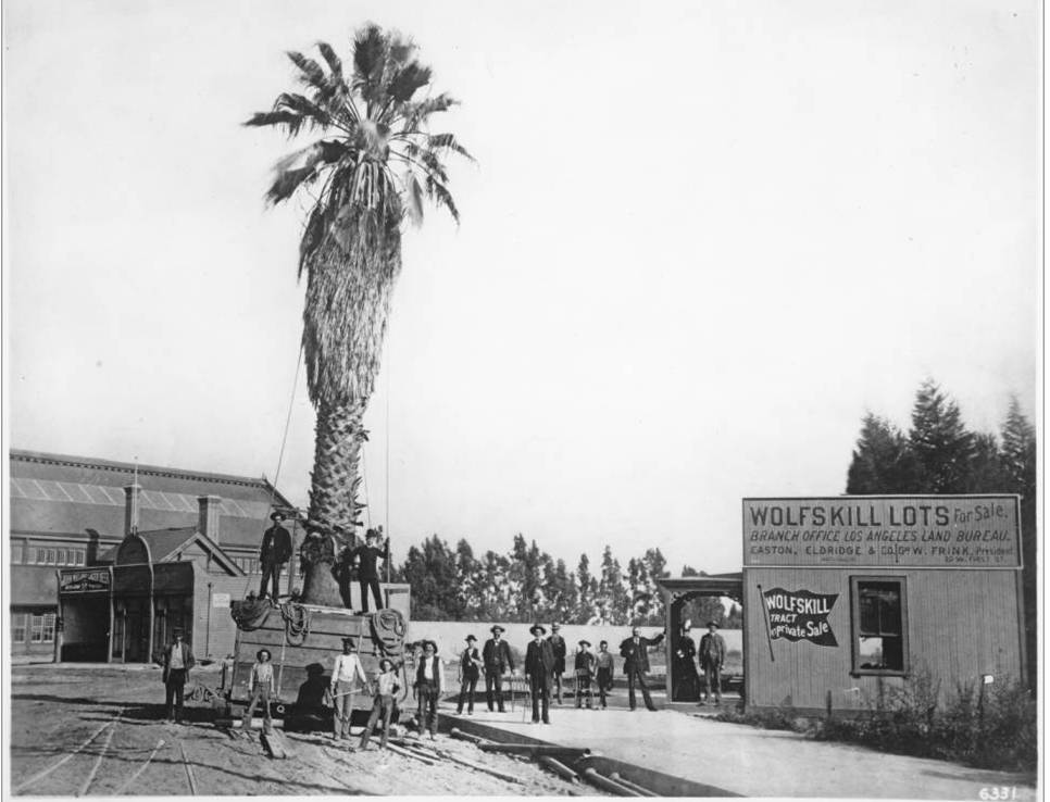 Los Angeles Consolidated Electric Railway's Arcade Depot sold by Wolfskill